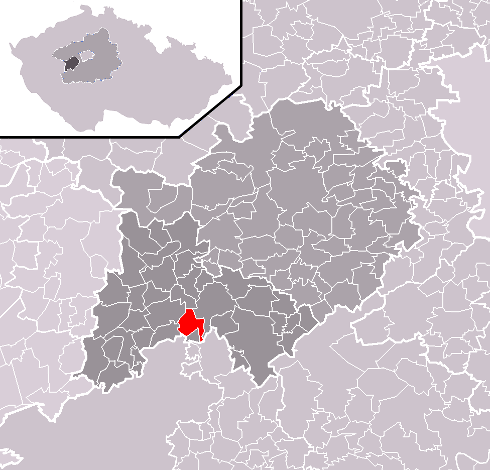 Location of Rpety municipality within Beroun District and administrative area of Hořovice as a Municipality with Extended Competence.